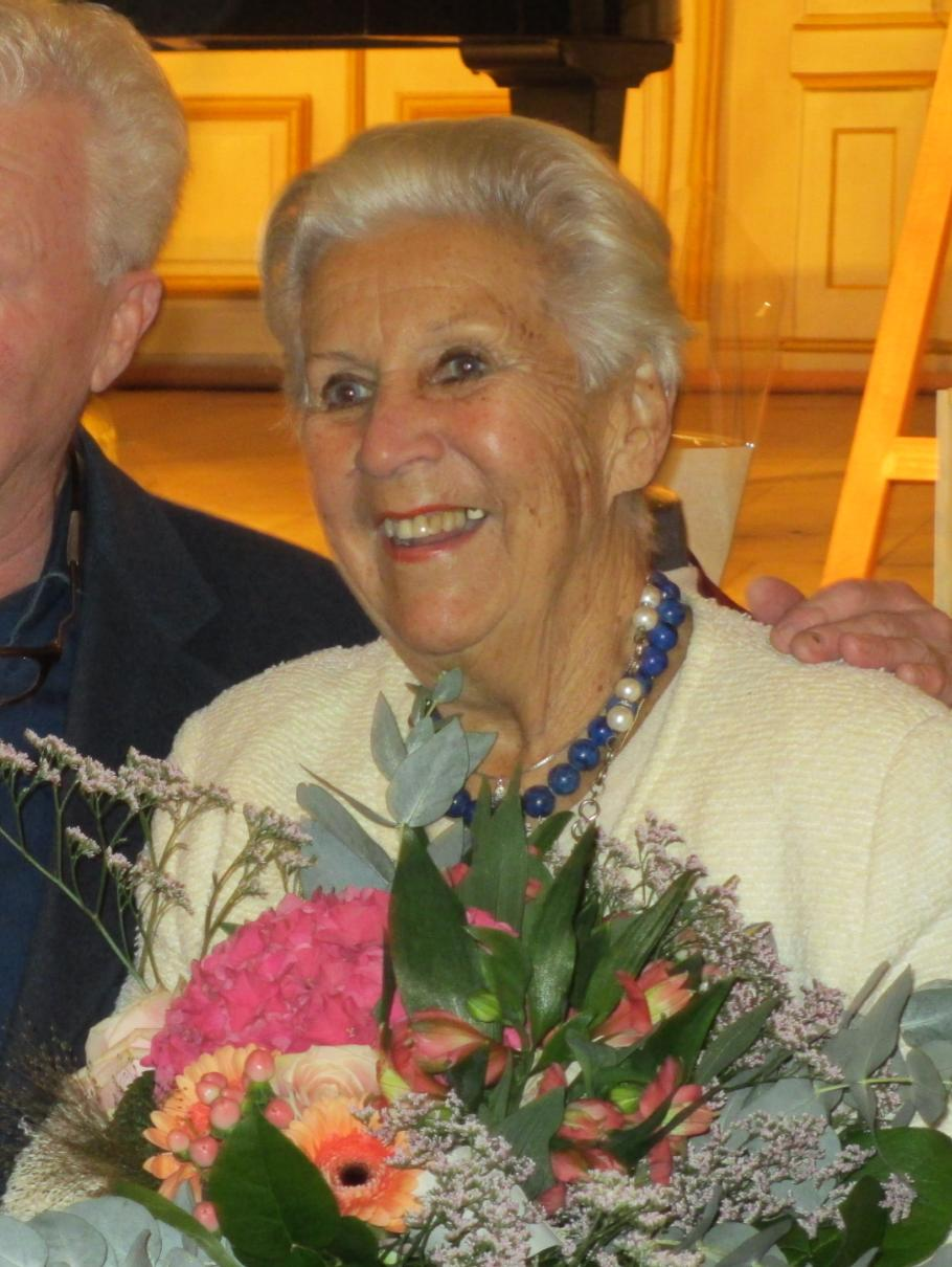 Kjerstin Dellert on her 90th birthday Place: Ulriksdal Palace Theater, Solna, Sweden